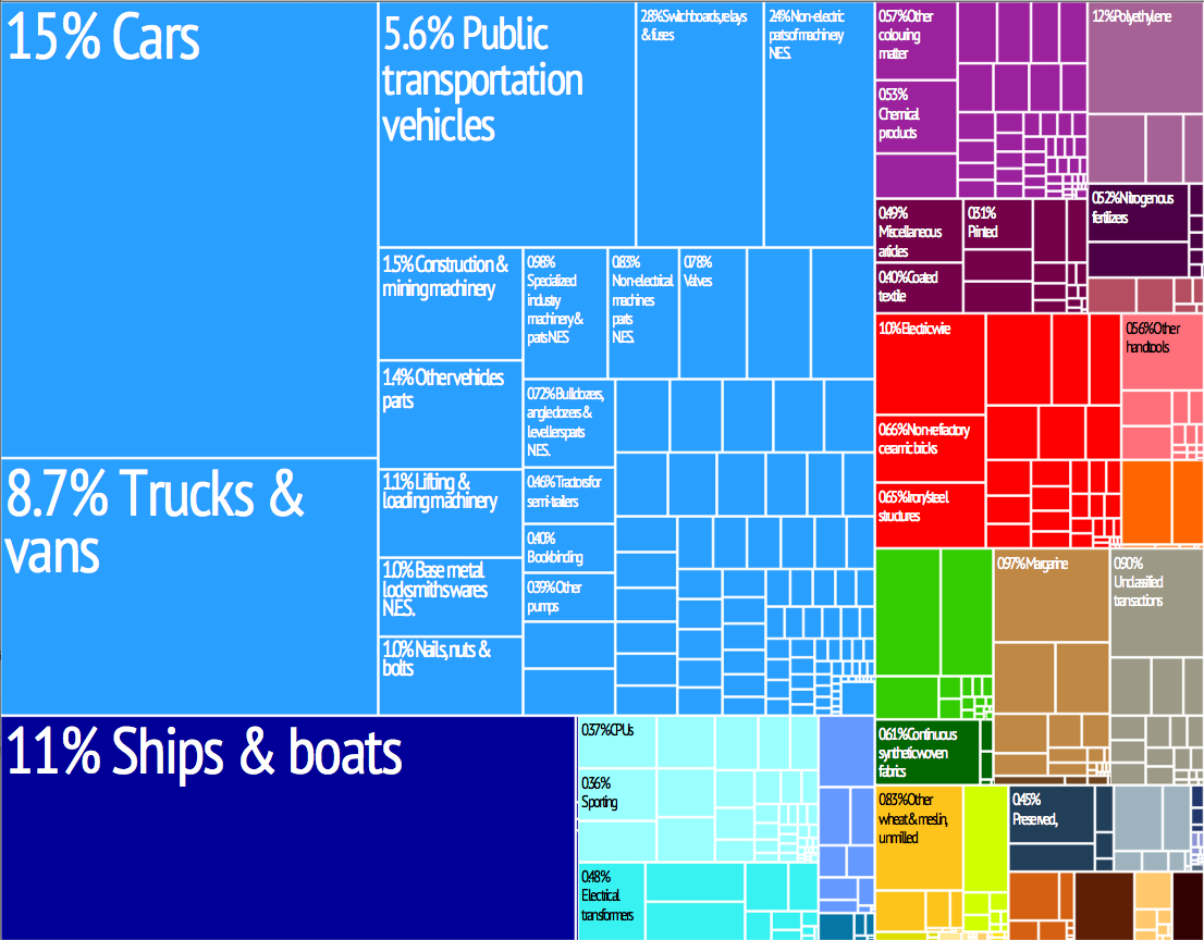 Export Trading Treemap. From MIT/Harvard Atlas of Economic Complexity